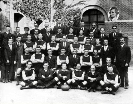 Photo of the 1919 Sturt premiership team.